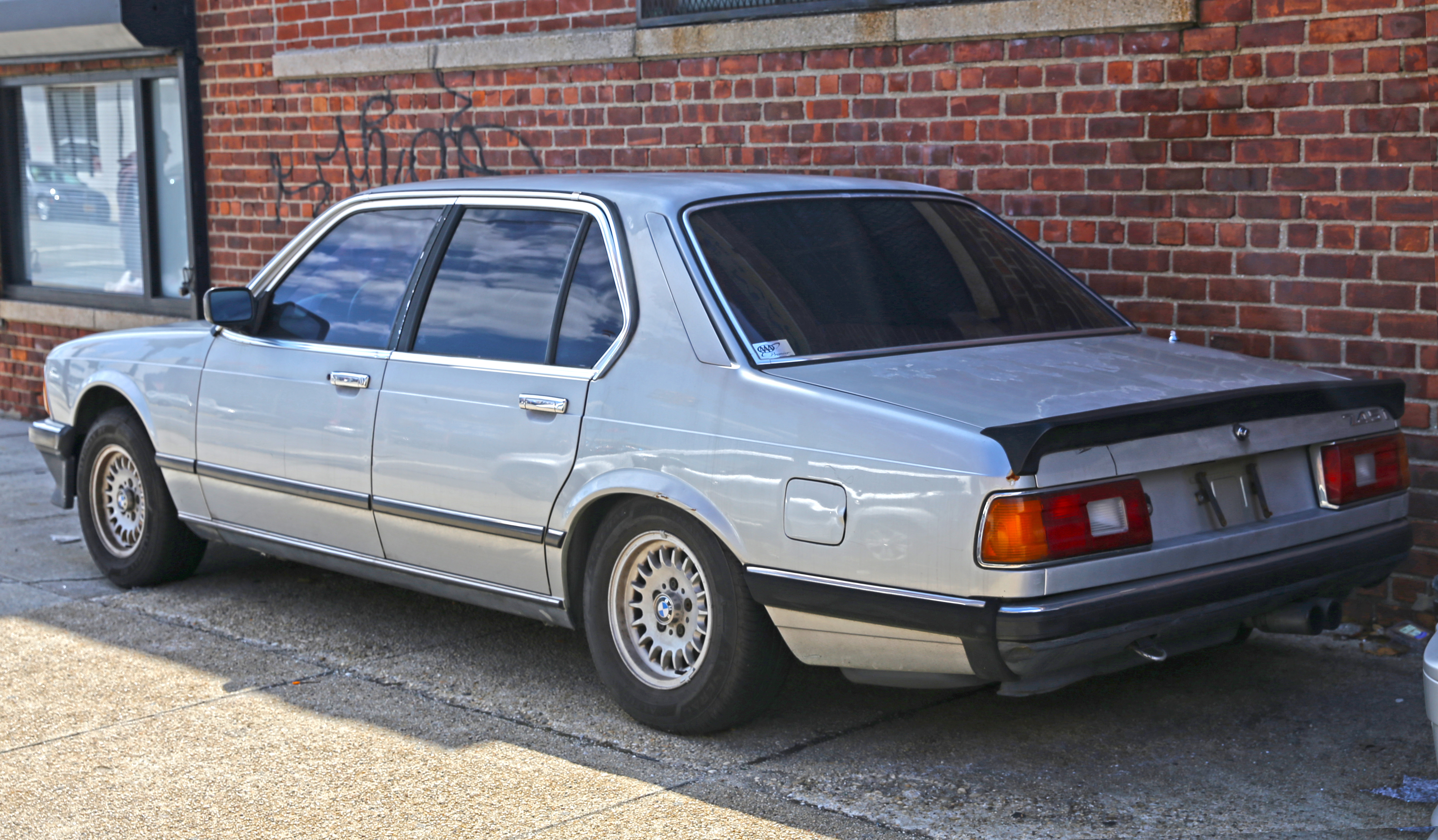 Not in particularly good shape any more. This old turbo'd 745i Was parked outside of a BMW specialist in Long Island City, Queens.